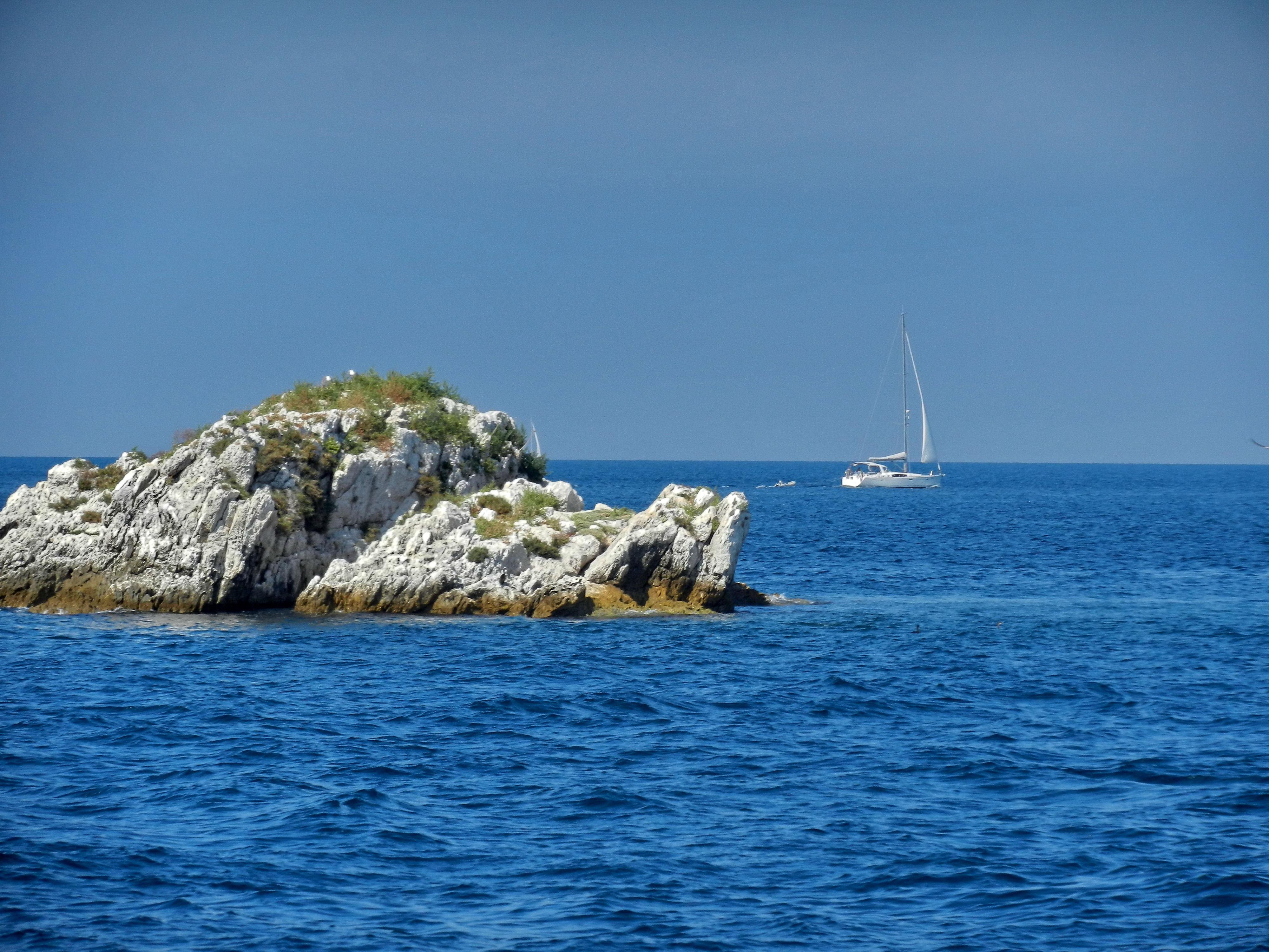 Butaceja reef, south of Poreč, Istria, Croatia.